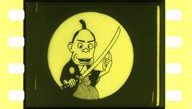 A frame from the toy filmstrip of Namakura Gatana (なまくら刀), originally Hanawa Hekonai meitō no maki (塙凹内名刀之巻, 1917), a lost film by Japanese animator Jun'ichi Kouchi.